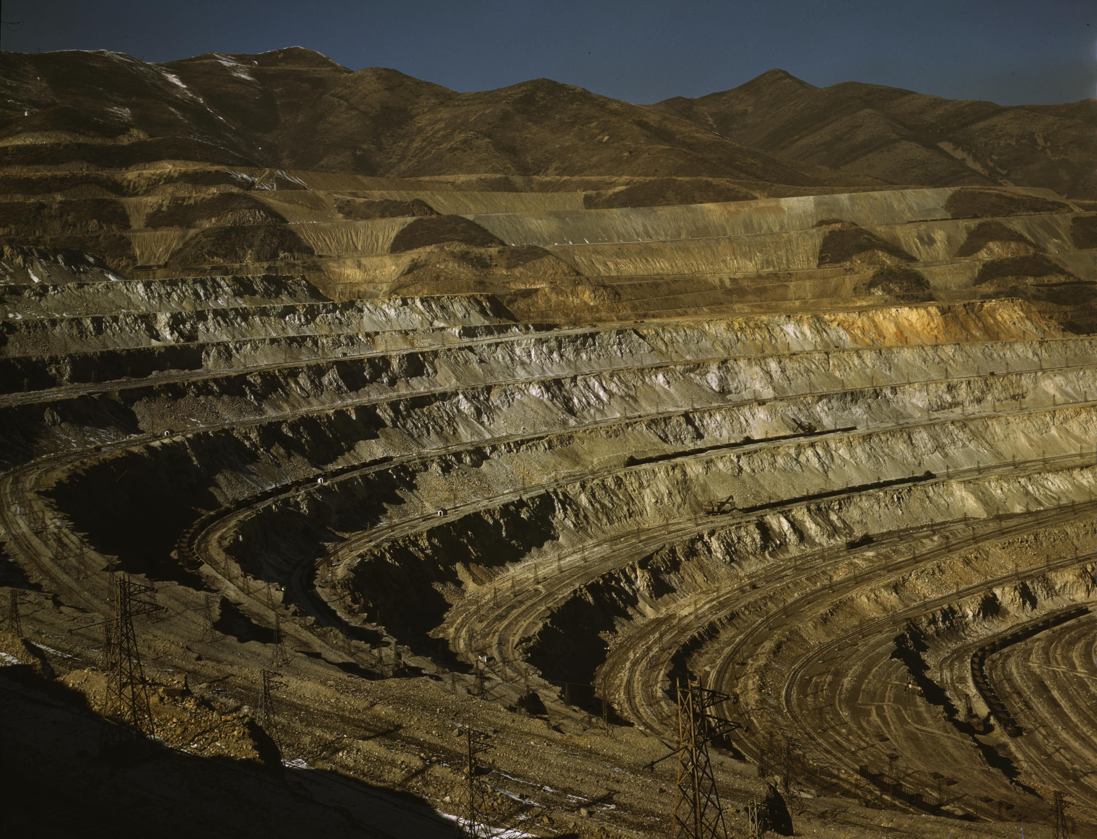 View of the Utah Copper Company open-pit mine workings at Carr Fork, as seen from the railroad, Bingham Canyon, Utah